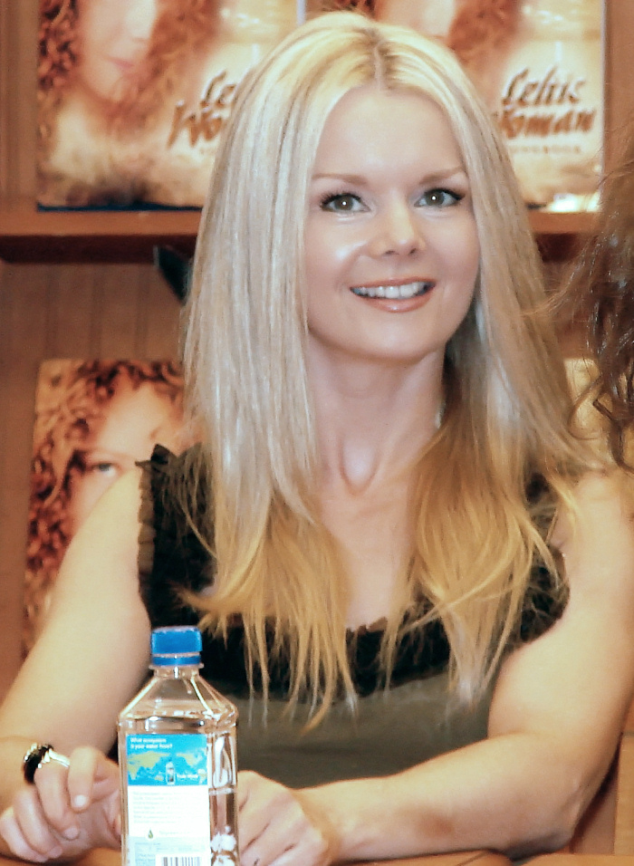 Máiréad Nesbitt at Barnes & Noble signing. Image cropped and recoloured for use in Infobox.